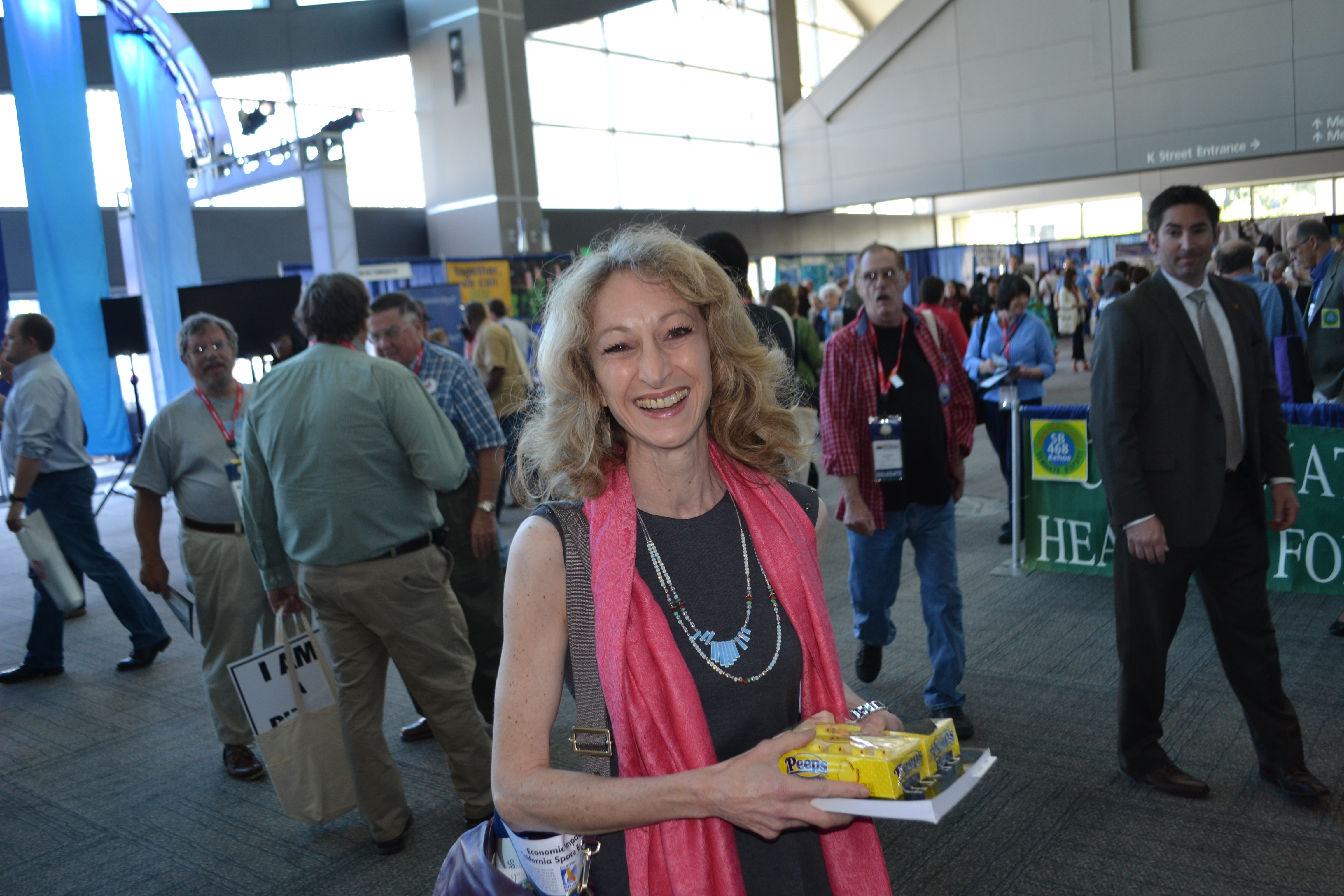 Secretary of State Debra Bowen, CA-36 candidate